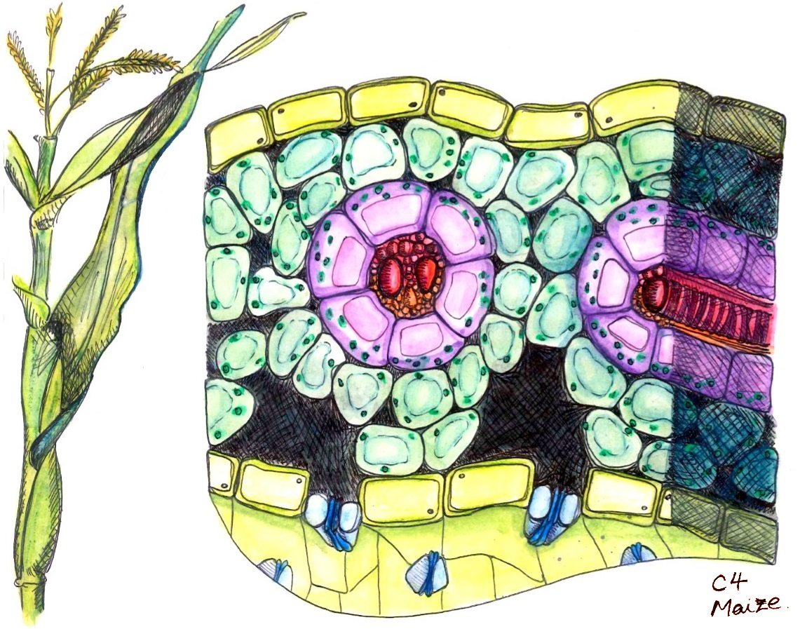 Cross section of a C4 plant. Specifically of a maize leaf. Vascular bundles shown. Drawing based on microscopic images courtesy of Cambridge University Plant Sciences Department.